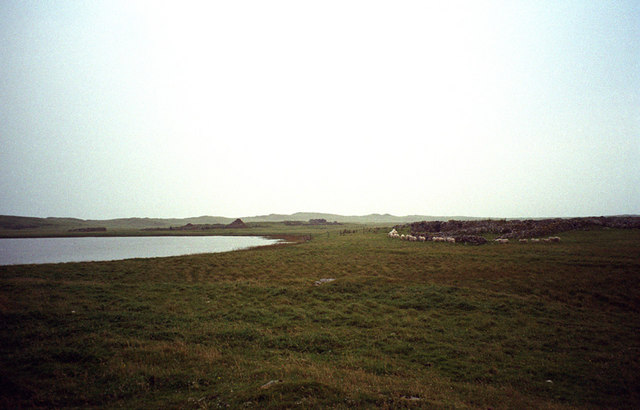 Loch nam Buadh on the Monach Isle of Ceann Ear, Scotland Loch nam Buadh, the loch of Virtues, on the isle of Ceann Ear. On far side of the loch lie the ruins of the island village, which was once the site of a nunnery.